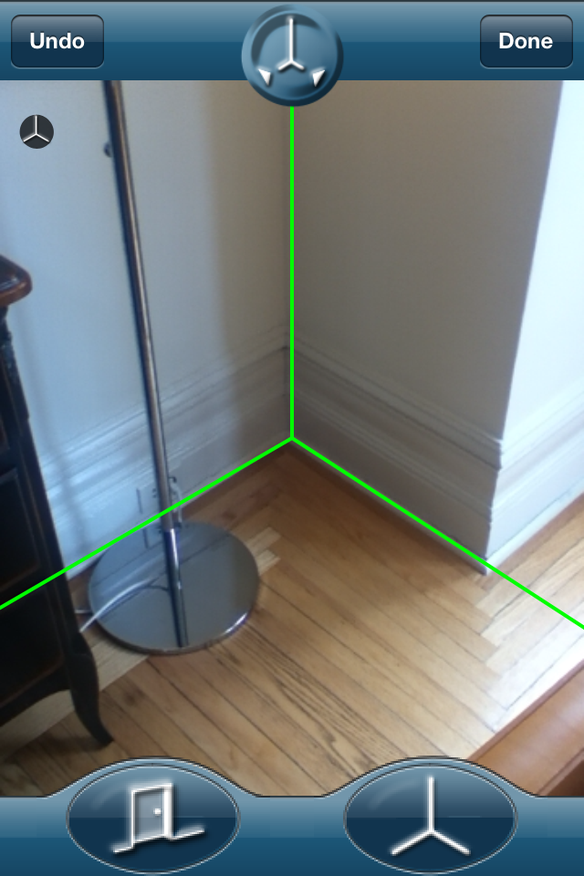 A smartphone app called MagicPlan uses augmented reality to capture building topology.